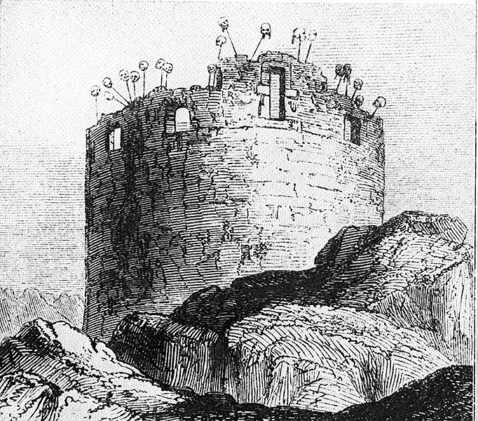 The Tablja tower in Montenegro, where the heads of Turkish warriors were impaled on spears as war trophies.